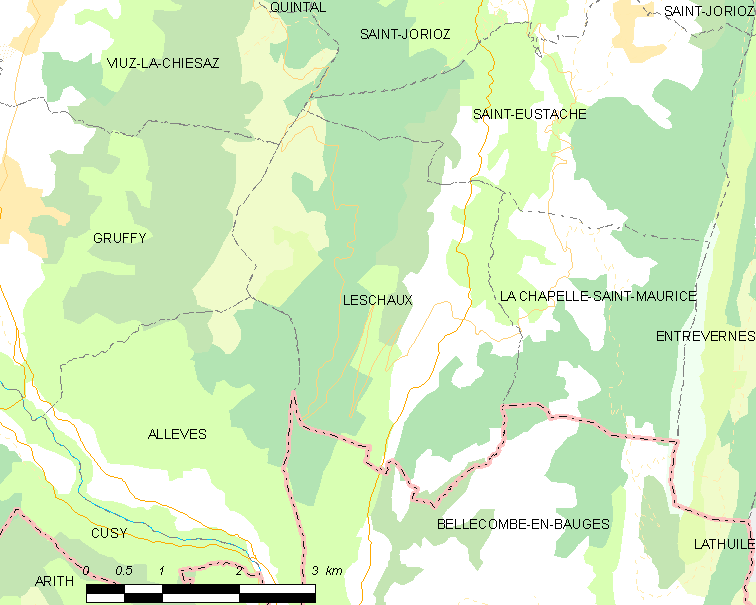 Map of French municipality Leschaux